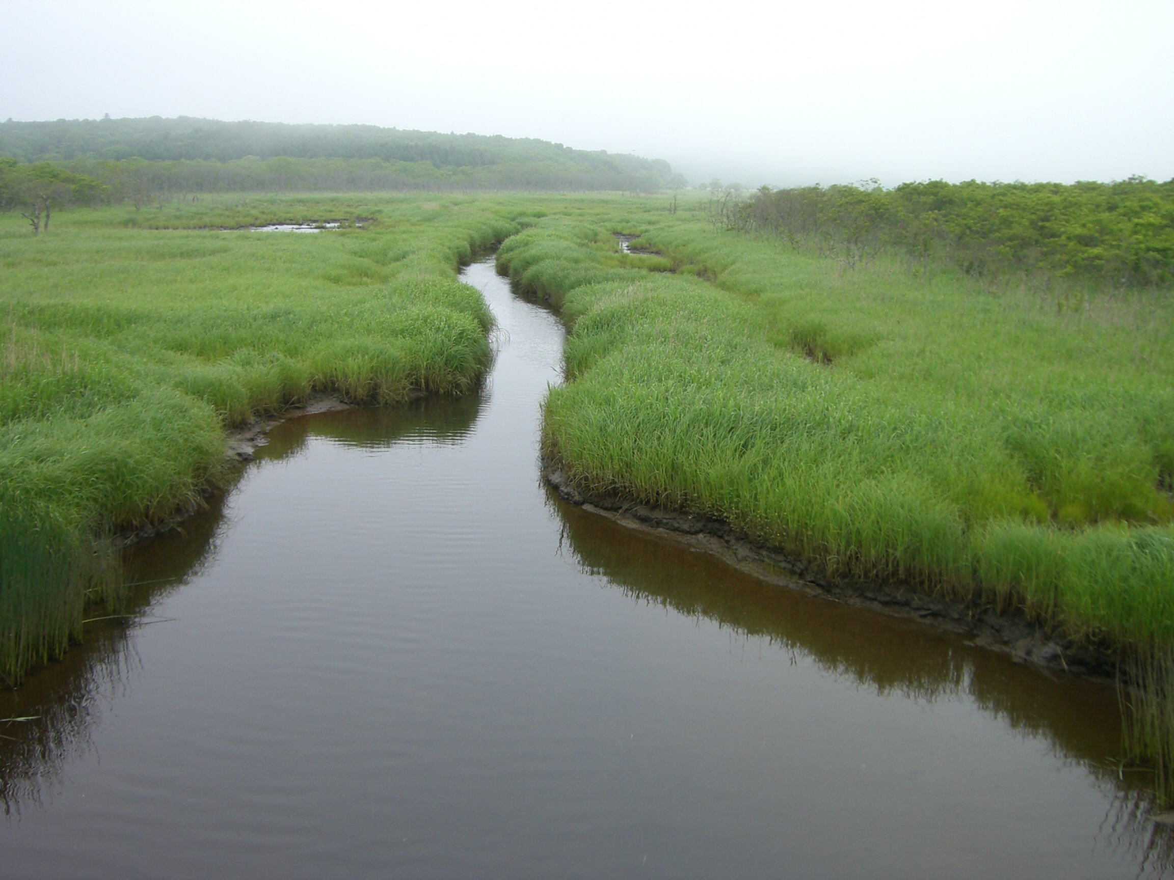 7月初旬の霧多布の泥炭地; Kiritappu peatland in early July of Hokkaido, Japan